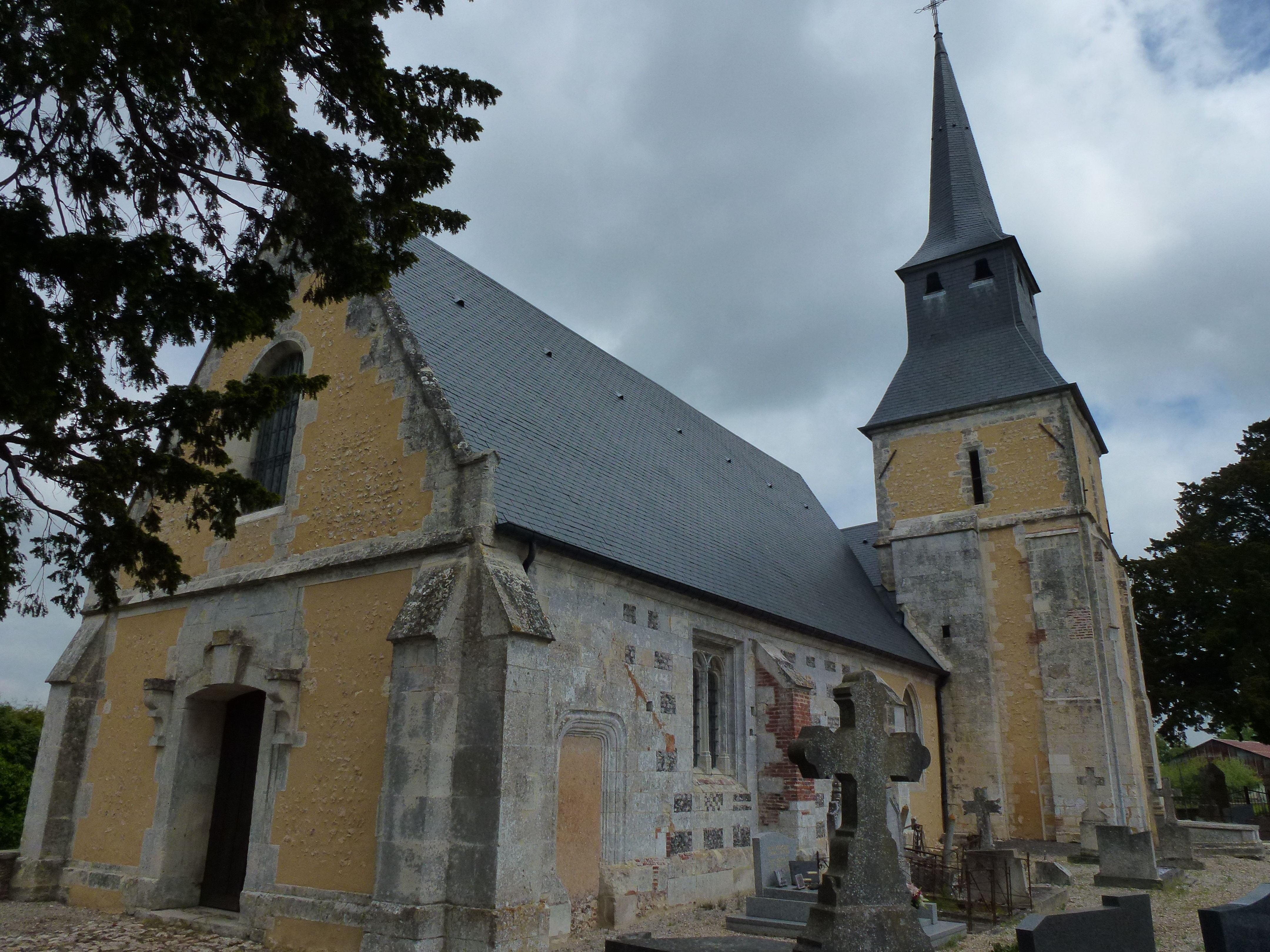 Hecmanville (Eure, Fr) église